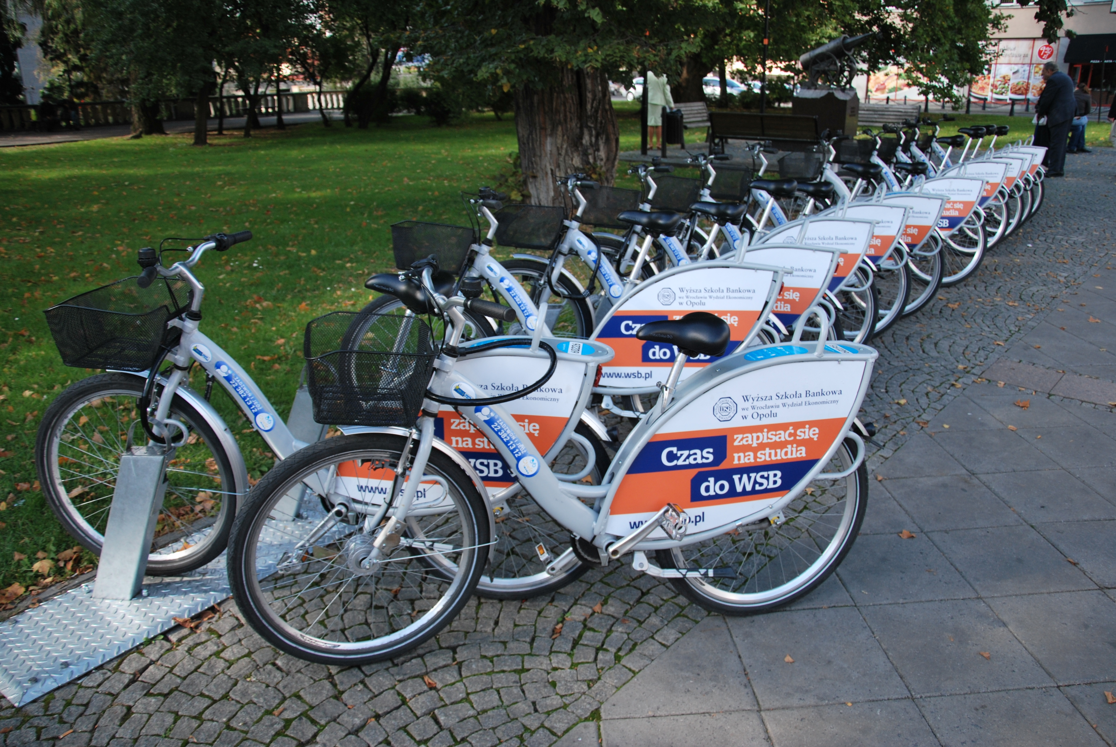 Bikes rent station, Opole